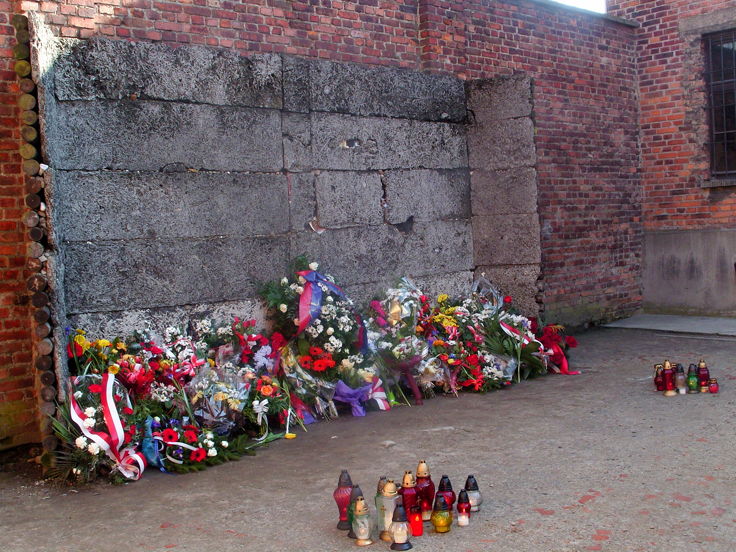 Museum Auschwitz-Birkenau